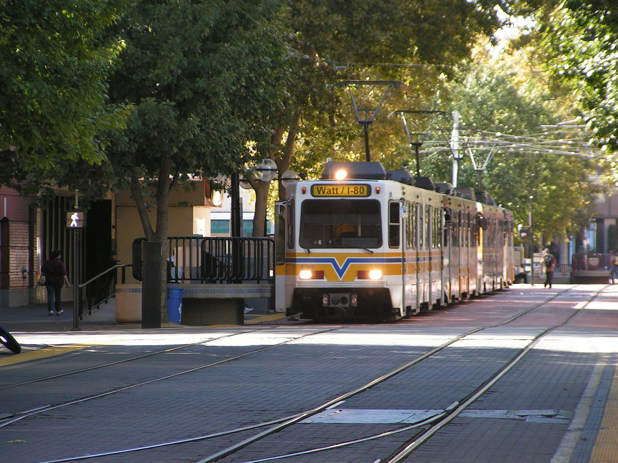 Sacramento Regional Transit. K Street Mall, Downtown Sacramento, California.